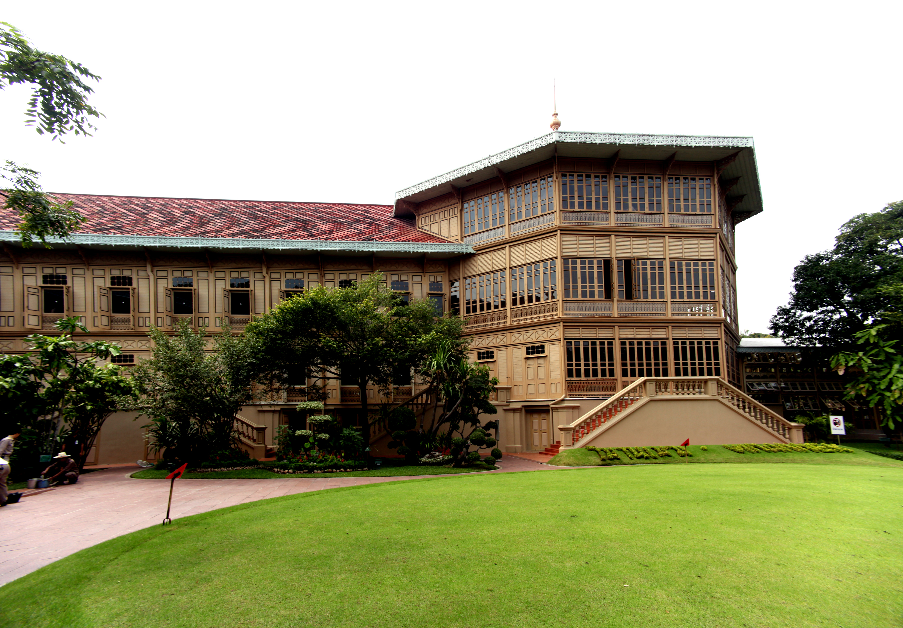 Vimanmek Masion